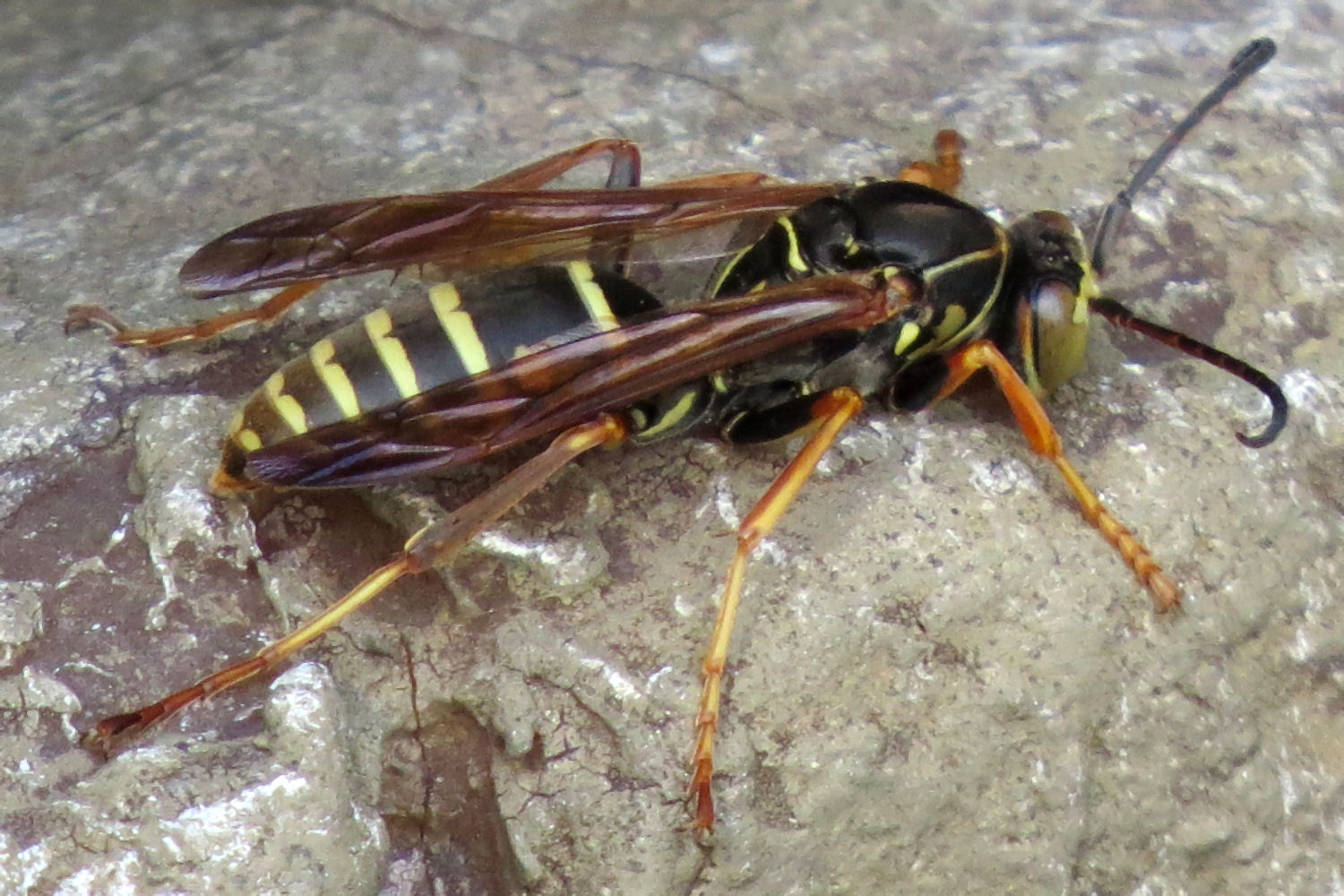 Northern Paper Wasp (Polistes fuscatus), Cantley, Quebec, Canada